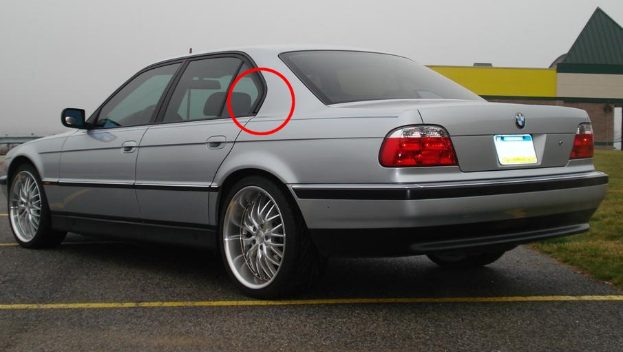 Illustrating the Hofmeister kink on an E38 1997 BMW 740i